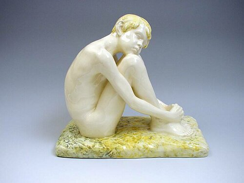 Sitting boy